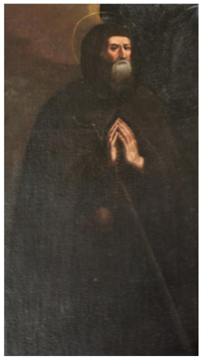 This painting stands on the main altar of the Sanctuary of St. Mir / Miro. The sanctuary is built upon the place of his hermitage, in the woods near to his hometown, Canzo, Province of Como, Italy. The picture has been made in the 16th century and represents Miro with his proper attributes: simple black or dark pilgrim dress (before the post-mortem franciscanization, occured by the 18th century), and the representation of his face, close to the most ancient drawings of his "true face", taken from the testimony of contemporaries.